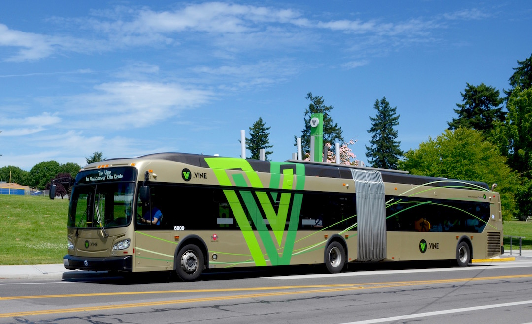 C-Tran bus 6009, a 2016-built New Flyer XDE60 (60-foot-long, articulated, hybrid bus) in service on "The Vine" service. It is westbound on E. McLoughlin Blvd., having just pulled away from the westbound Marshall/Luepke Community Center station.